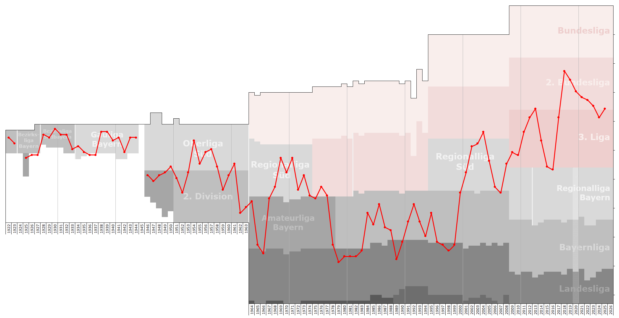 Chart of end-season table positions of Jahn Regensburg in the football league system of Germany. Data source: RSSSF, wikipedia, f-archiv.de, fussball.de